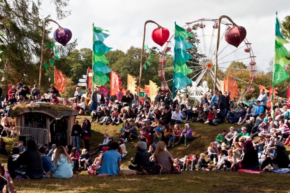 Picture showing the crowd at the Body & Soul arena at Electric Picnic 2010.jpg